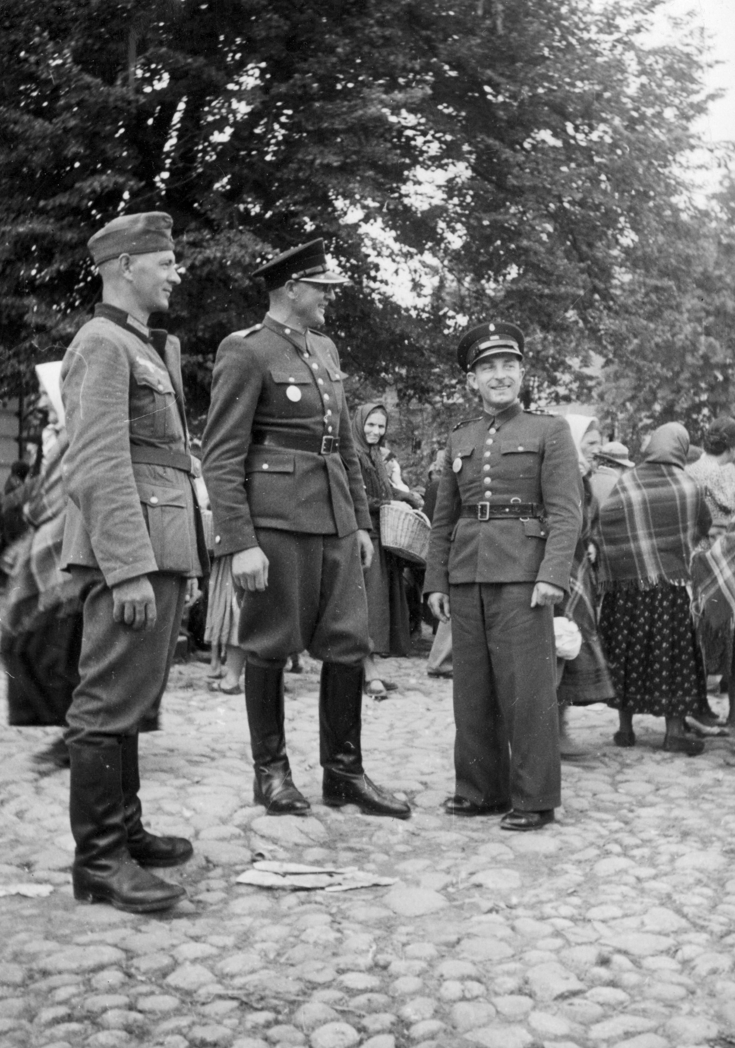 German soldier and two Polish policemen at an outdoor marketplace, Poland 1939-1945